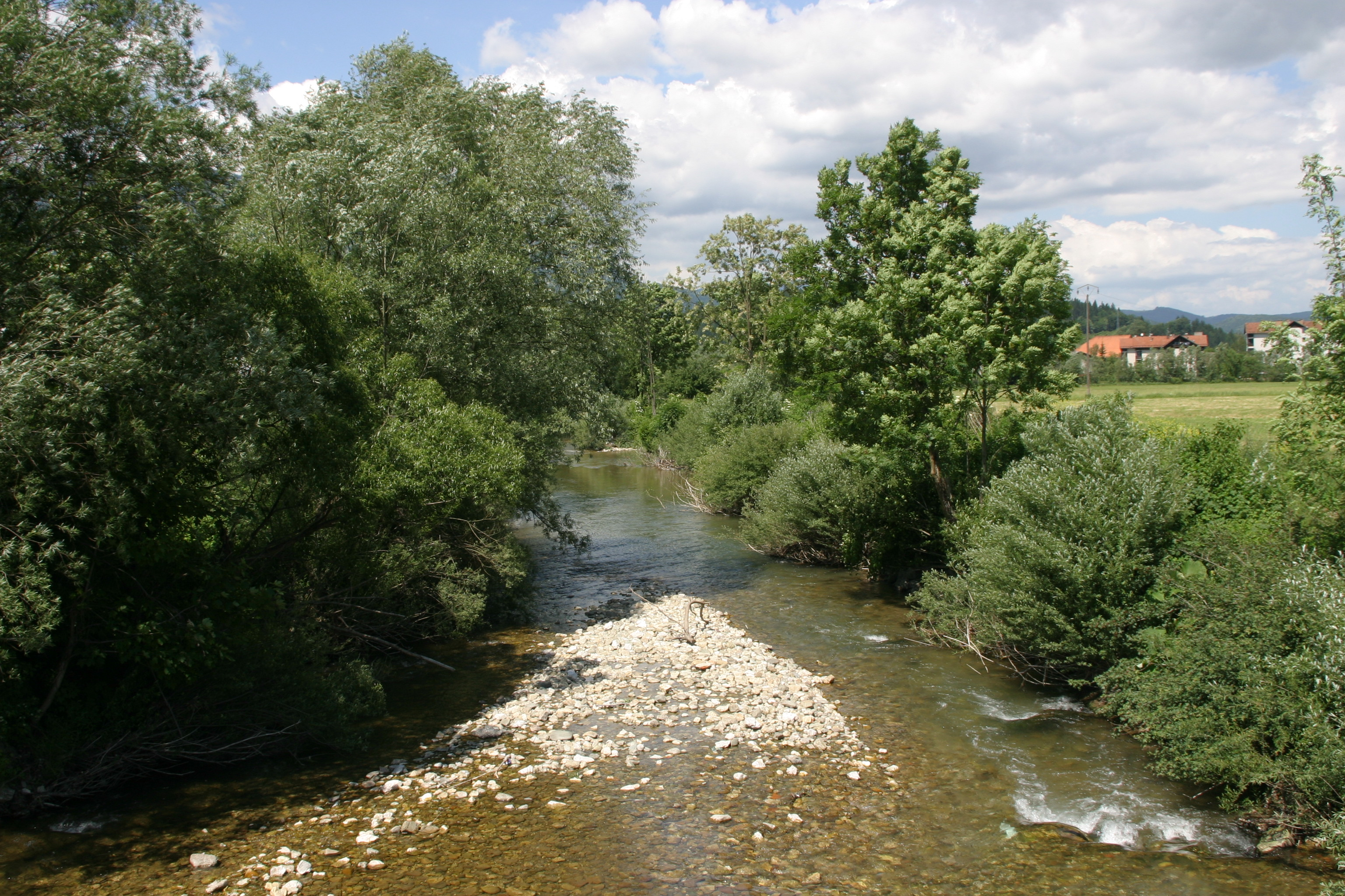 Dreta River at the village of Žlabor